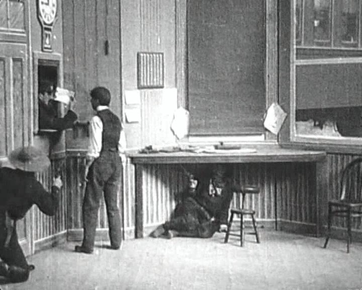 Screenshot from The Great Train Robbery (1903)